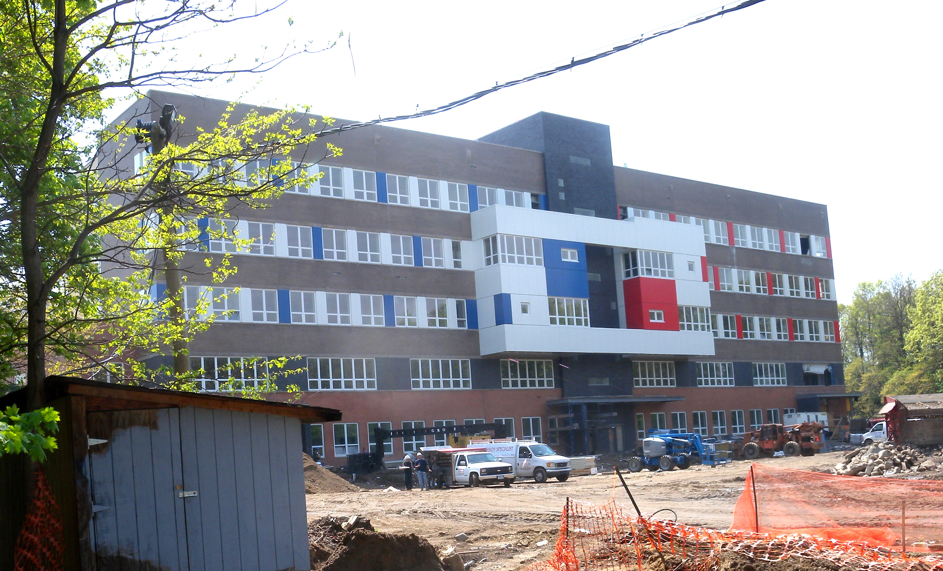 Looking southwest at Queens Metropolitan High School on a sunny midday.